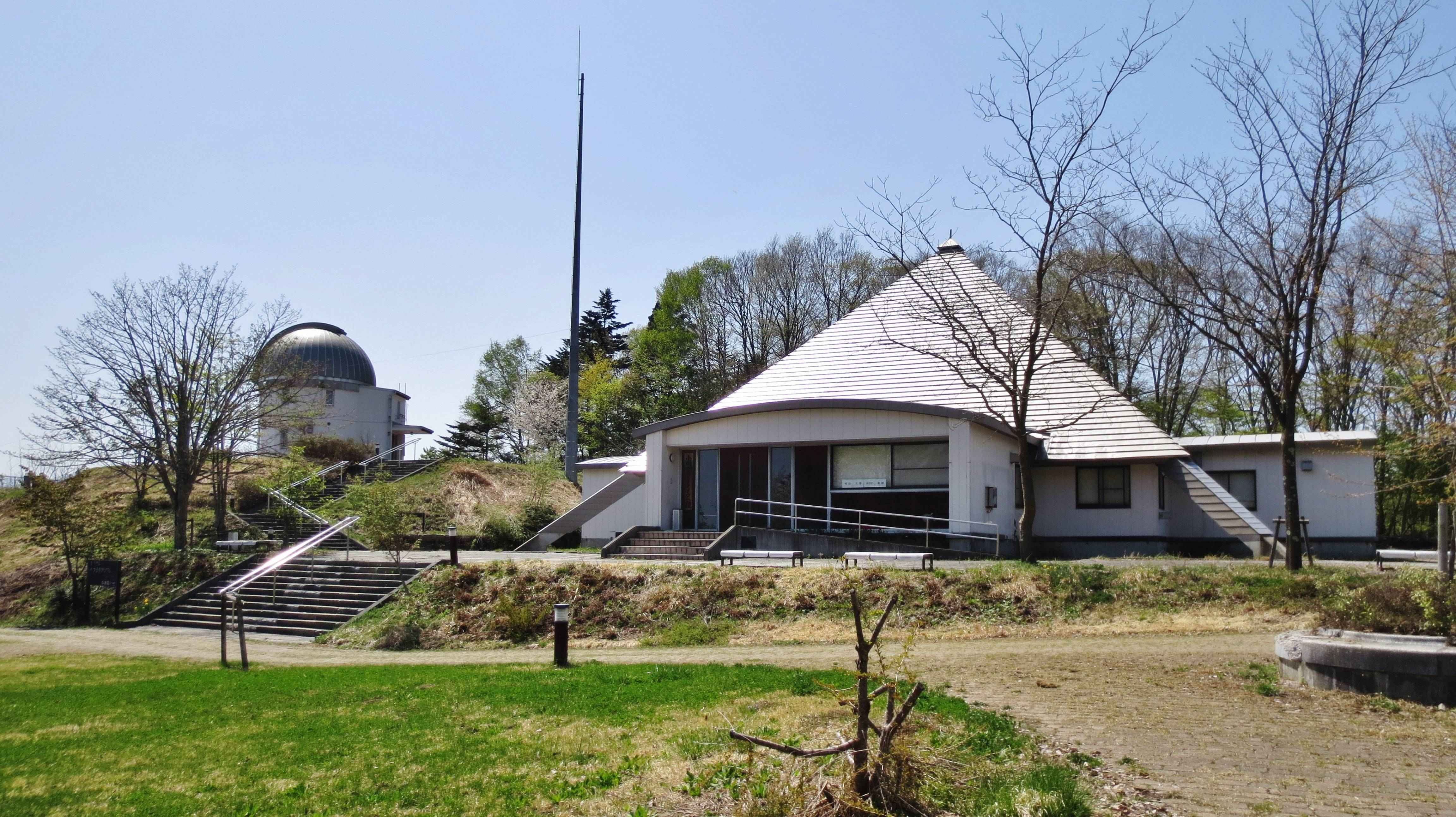 Ogawa Observatory and Planetarium.